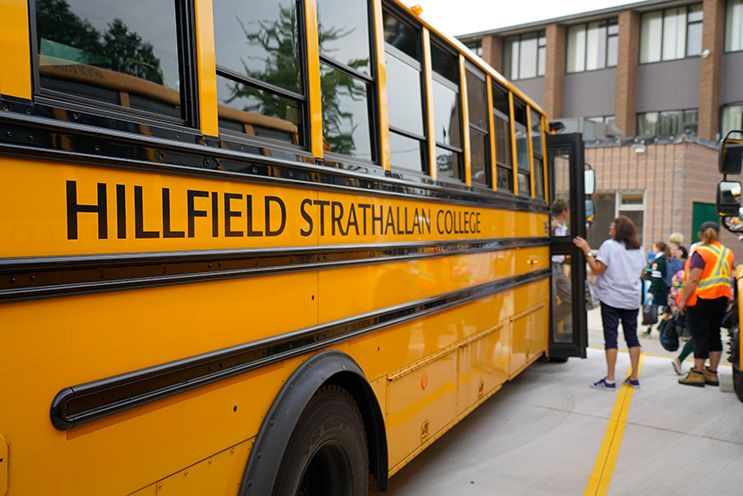 Hillfield has over 30 buses that run 3 times daily to all over the Greater Hamilton Area, this is one unloading in the morning